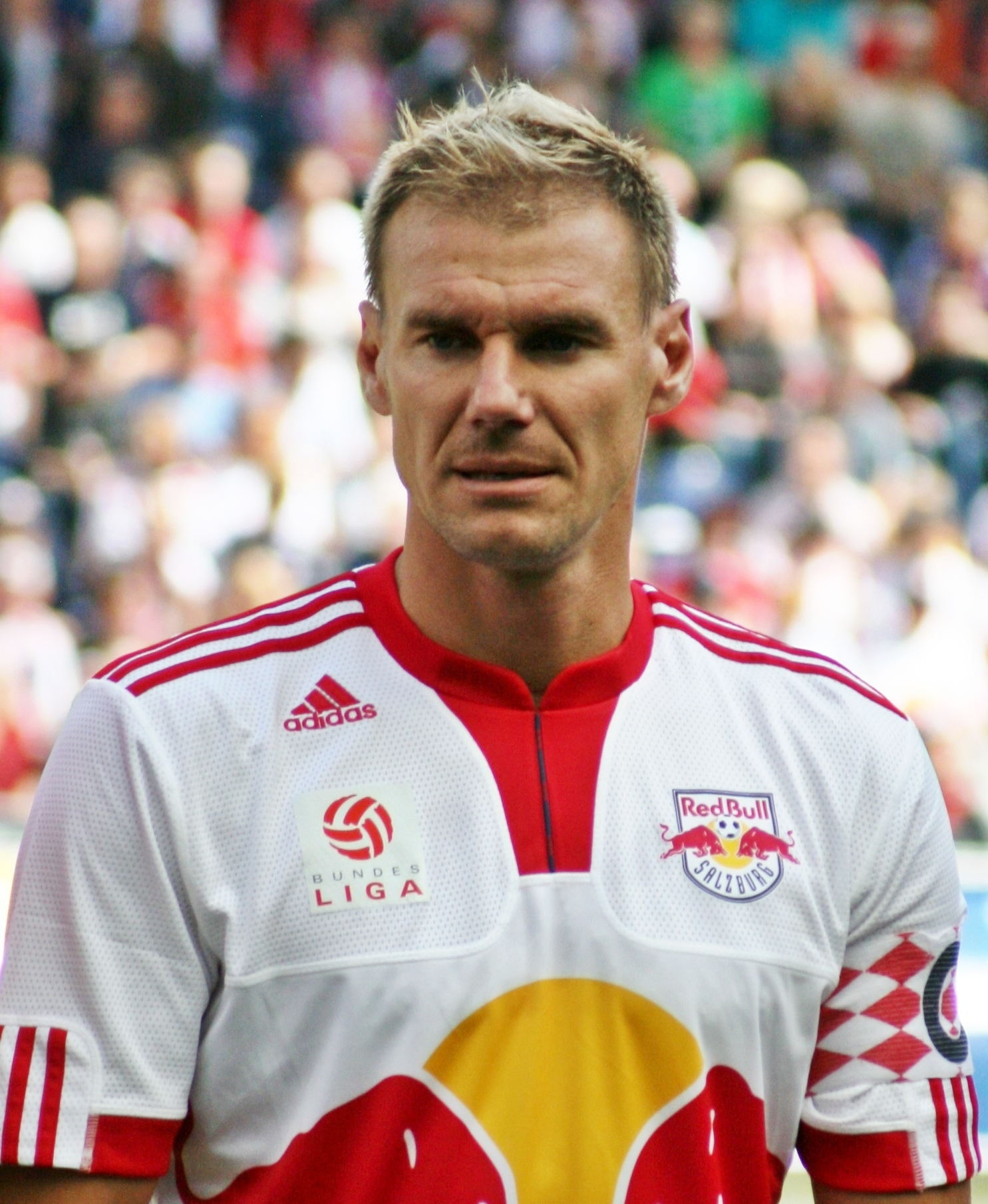 Alexander Zickler